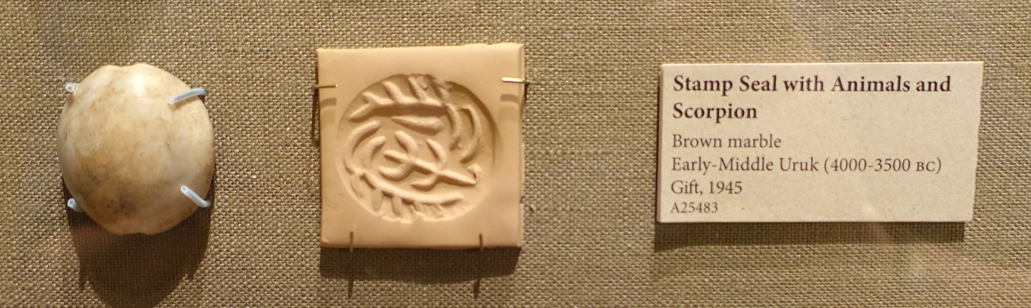 Exhibit in the Oriental Institute Museum, University of Chicago, Chicago, Illinois, USA. This work is old enough so that it is in the public domain.